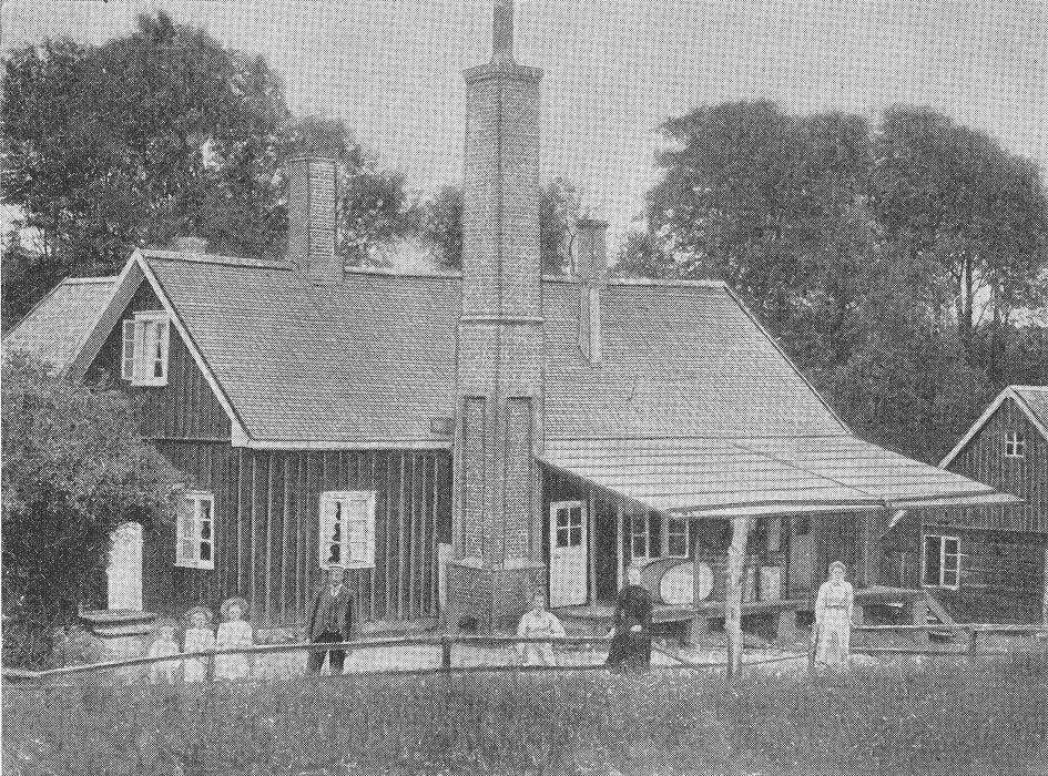 The old dairy in Åparp, the first dairy in Okome parish built in 1882